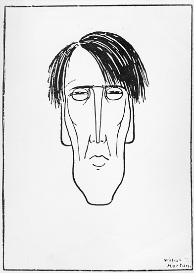 XND324456 Caricature of W.B. Yeats, 1898 (ink on paper) by Horton, William Thomas (1864-1919); Private Collection; (add. info.: William Butler Yeats (1865-1939), Irish poet and dramatist); English, out of copyright